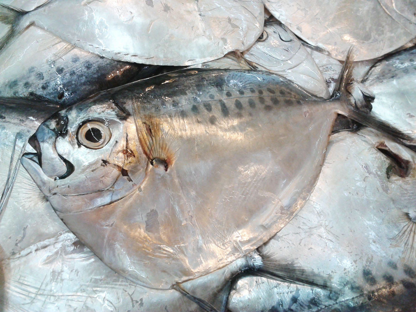 Mene maculata being sold at a supermarket in the Philippines.